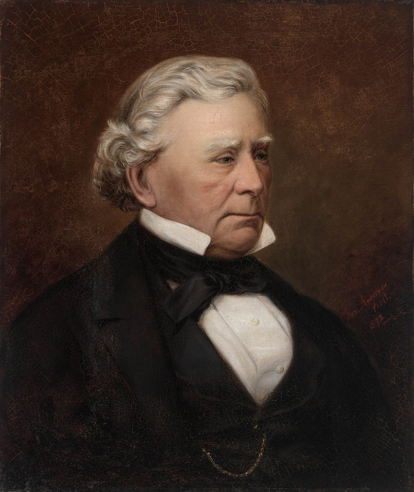 Portrait of William Charles Wentworth, oil on canvas, 60 x 50 cm, by Eugene von Guerard